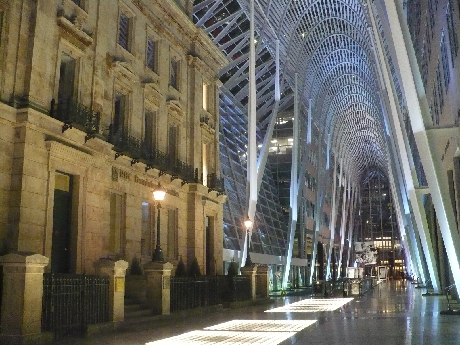 Allen Lambert Galleria at Brookfield Place in Toronto